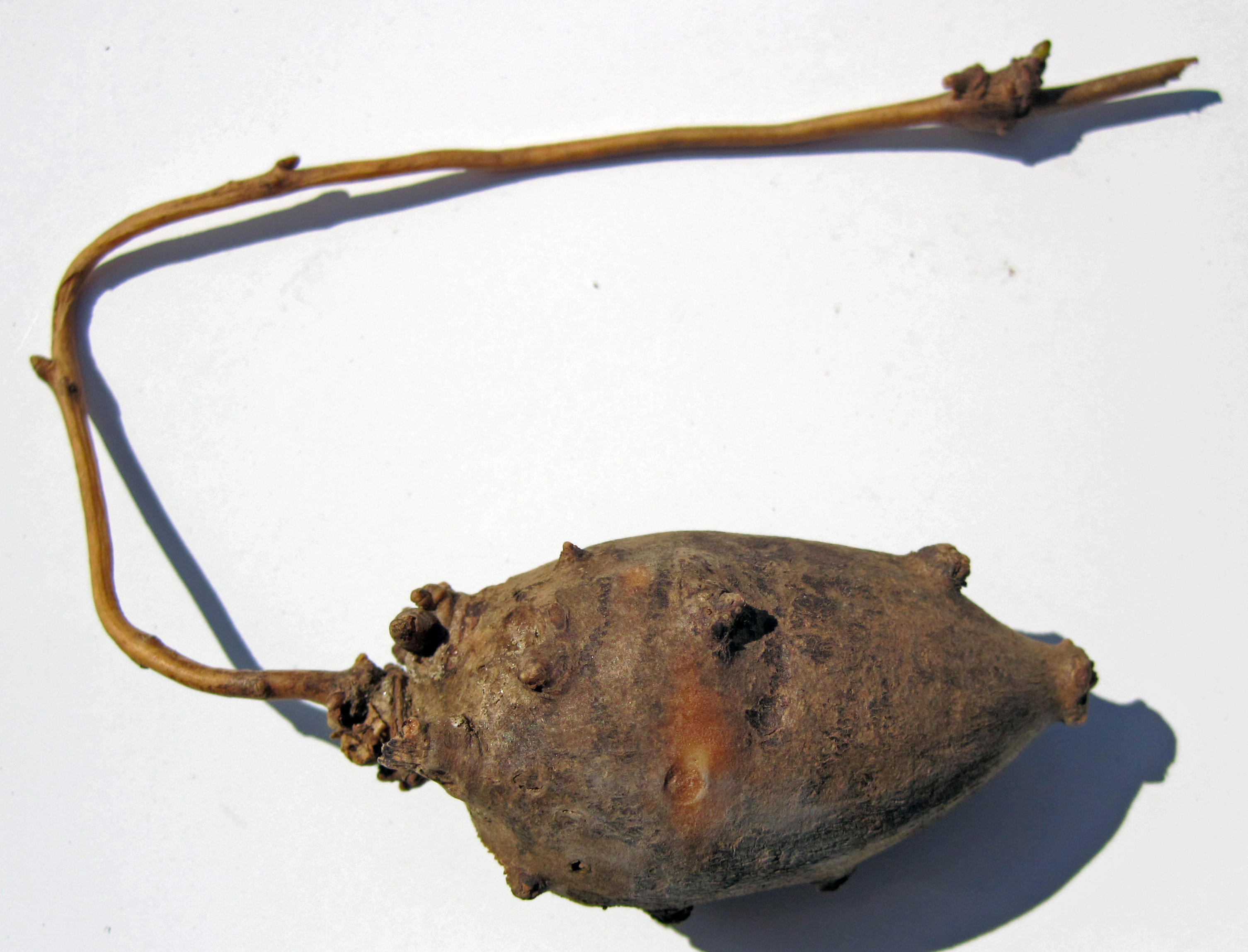 Apios americana Medikus, 1787 - American groundnut in Ohio, USA. Plants are multicellular, photosynthesizing eucaryotes. Most species occupy terrestrial environments, but they also occur in freshwater and saltwater aquatic environments. The oldest known land plants in the fossil record are Ordovician to Silurian. Land plant body fossils are known in Silurian sedimentary rocks - they are small and simple plants (e.g., Cooksonia). Fossil root traces in paleosol horizons are known in the Ordovician. During the Devonian, the first trees and forests appeared. Earth's initial forestation event occurred during the Middle to Late Paleozoic. Earth's continents have been partly to mostly covered with forests ever since the Late Devonian. Occasional mass extinction events temporarily removed much of Earth's plant ecosystems - this occurred at the Permian-Triassic boundary (251 million years ago) and the Cretaceous-Tertiary boundary (65 million years ago). The most conspicuous group of living plants is the angiosperms, the flowering plants. They first unambiguously appeared in the fossil record during the Cretaceous. They quickly dominated Earth's terrestrial ecosystems, and have dominated ever since. This domination was due to the evolutionary success of flowers, which are structures that greatly aid angiosperm reproduction. The structure shown above is a tuber of the American groundnut, also known as the Indian potato - it is edible for humans. Classification: Plantae, Angiospermophyta, Fabales, Fabaceae Locality: Symmes Creek, just upstream from Mollies Rock Road bridge, Madison Township, northern Muskingum County, eastern Ohio, USA